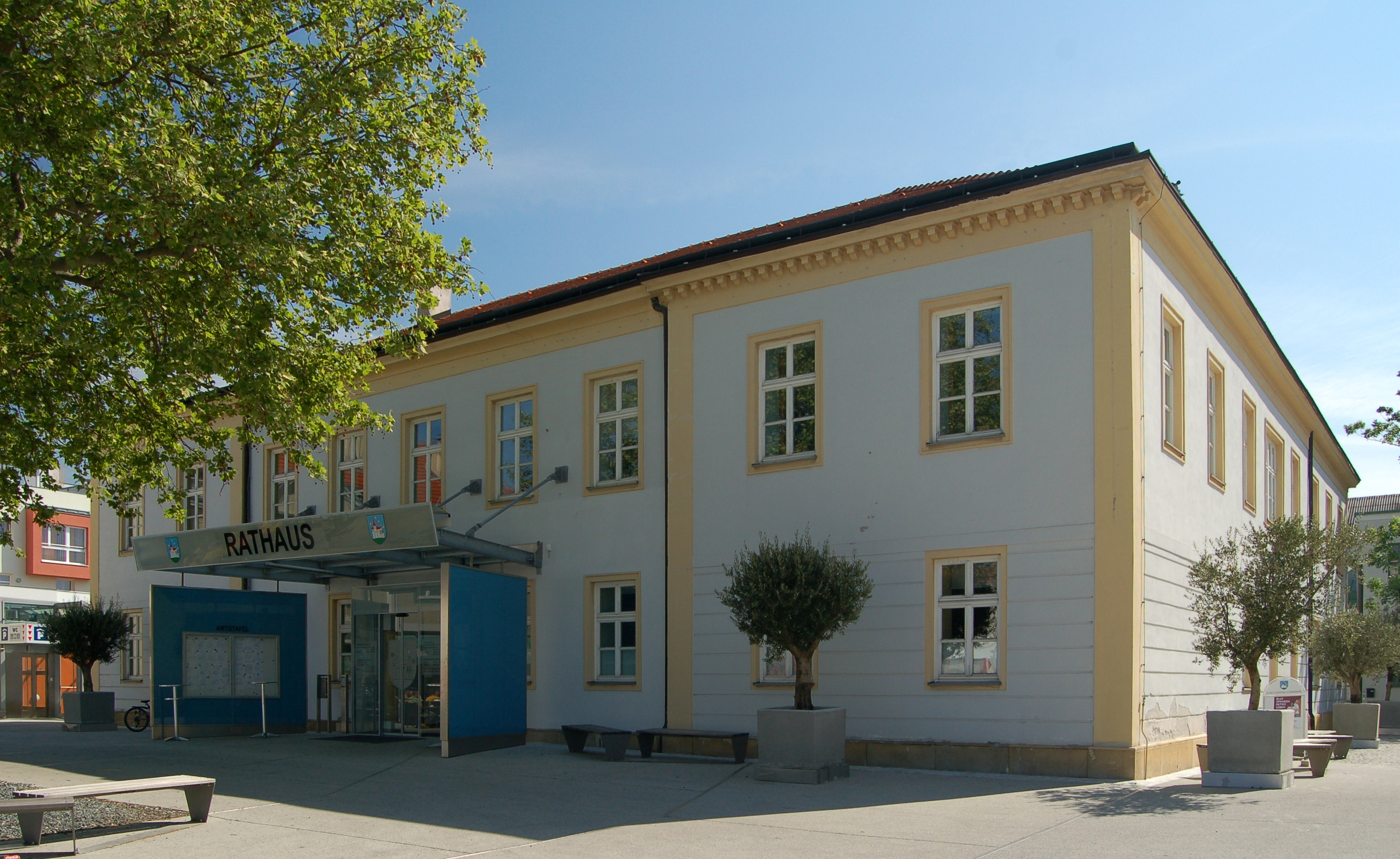 Town hall in Leobersdorf, Lower Austria.